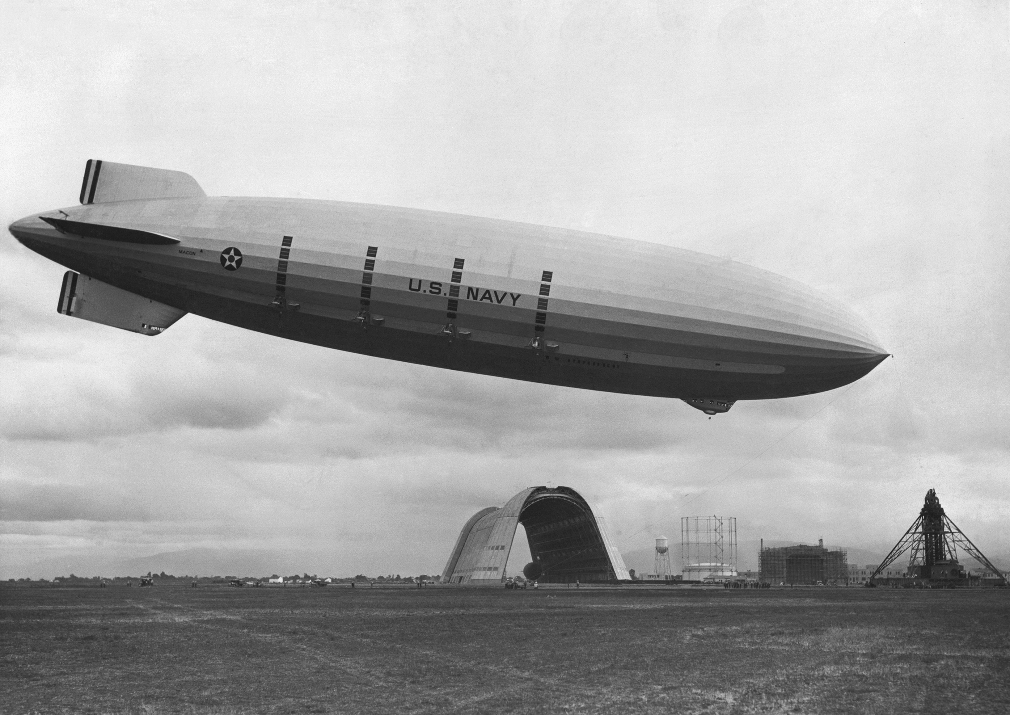 USS Macon (ZRS-5) at North Circle NAS Sunnyvale, Mt View, CA. This U.S. Navy Zeppelin was built in the United States by the Goodyear-Zeppelin company in 1933. It is shown here at the airfield later named Moffett Field, in Santa Clara County, California.